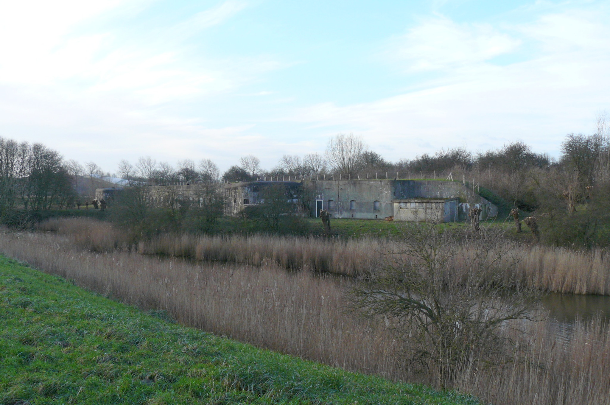 Fort Zuidwijkermeer seen in the direction of the North Sea Canal.